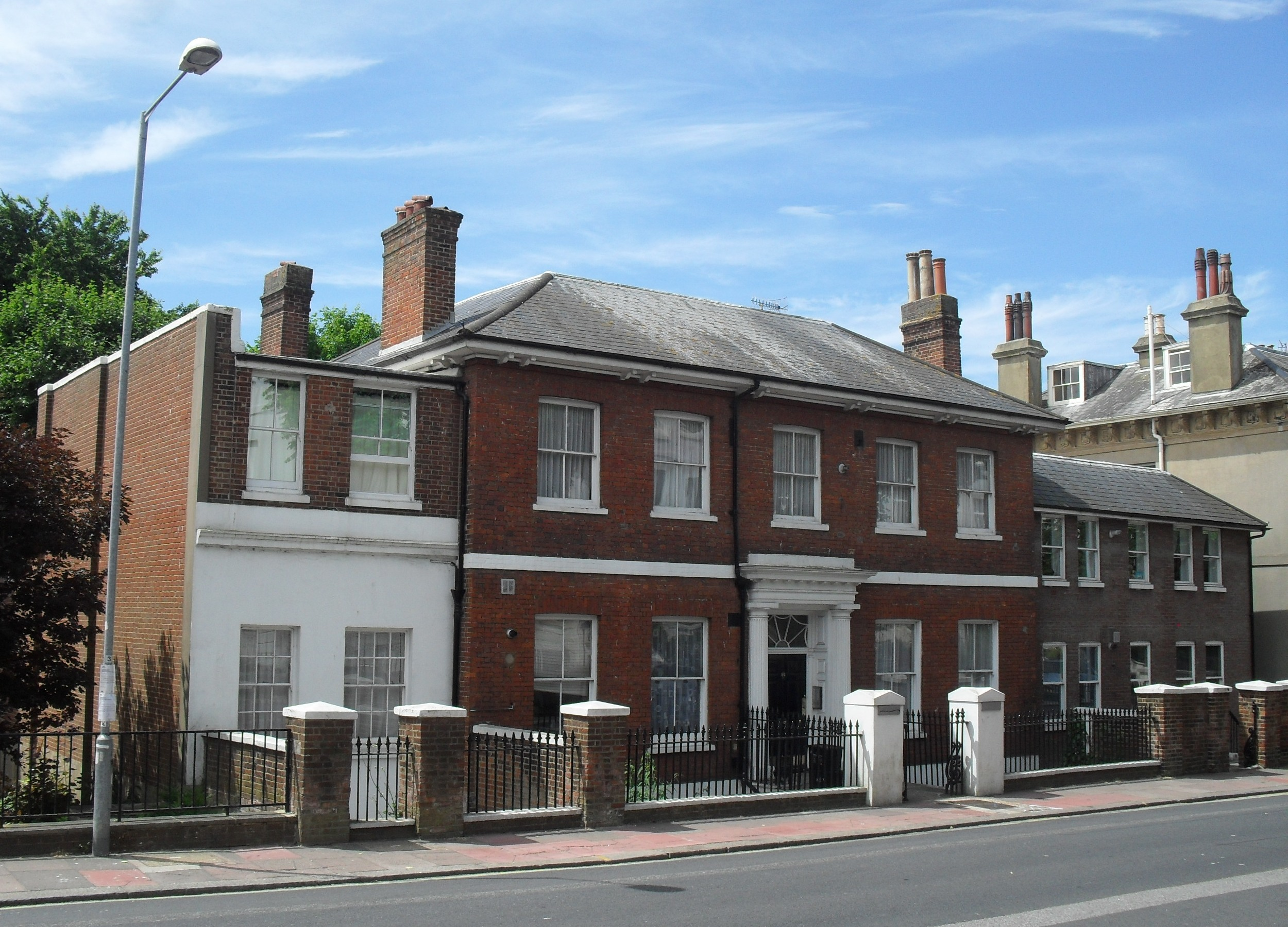 16 Montpelier Place, Montpelier, City of Brighton and Hove, England. Listed at Grade II by English Heritage (NHLE Code 1380087)